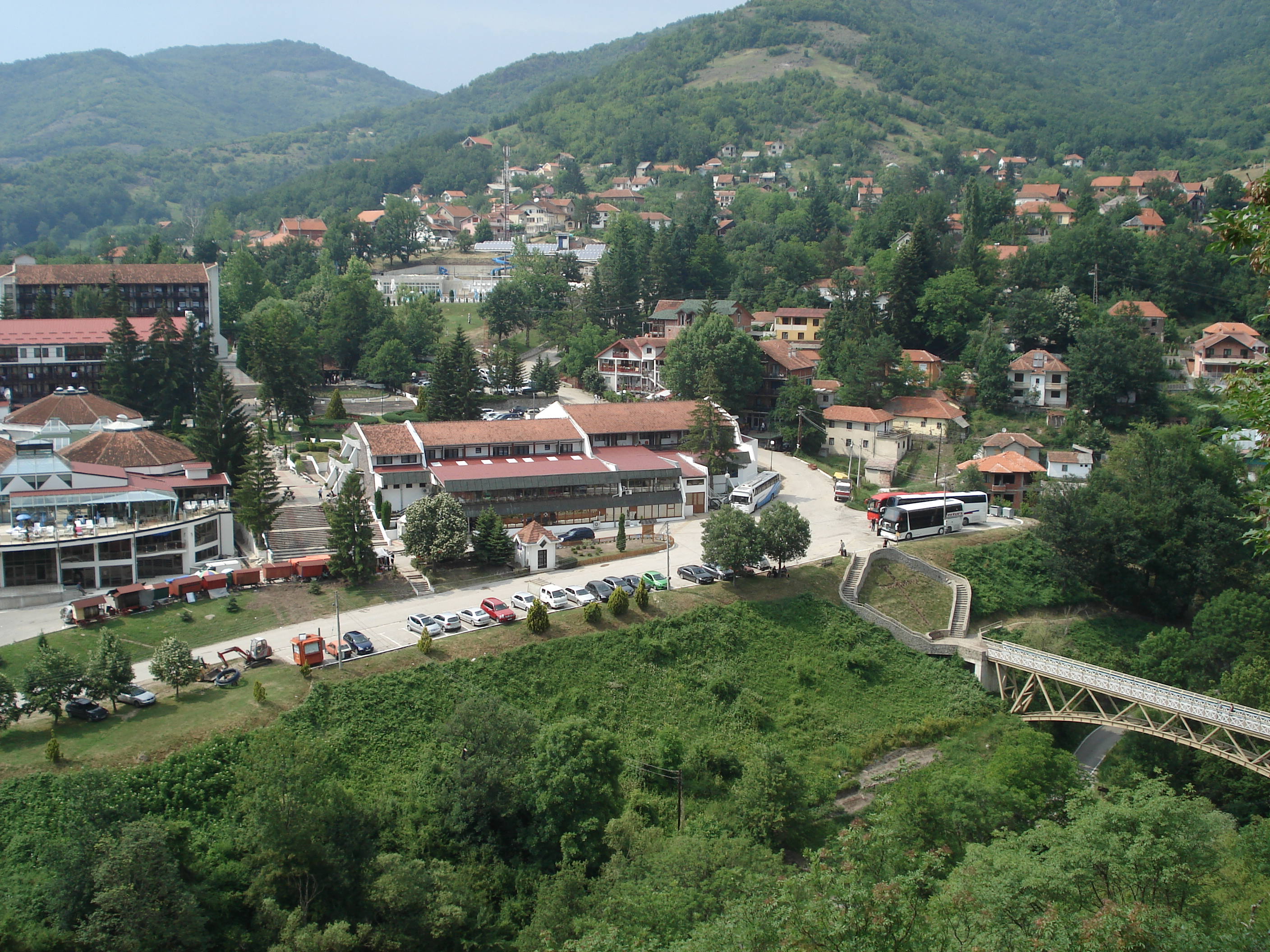 Prolom Banja